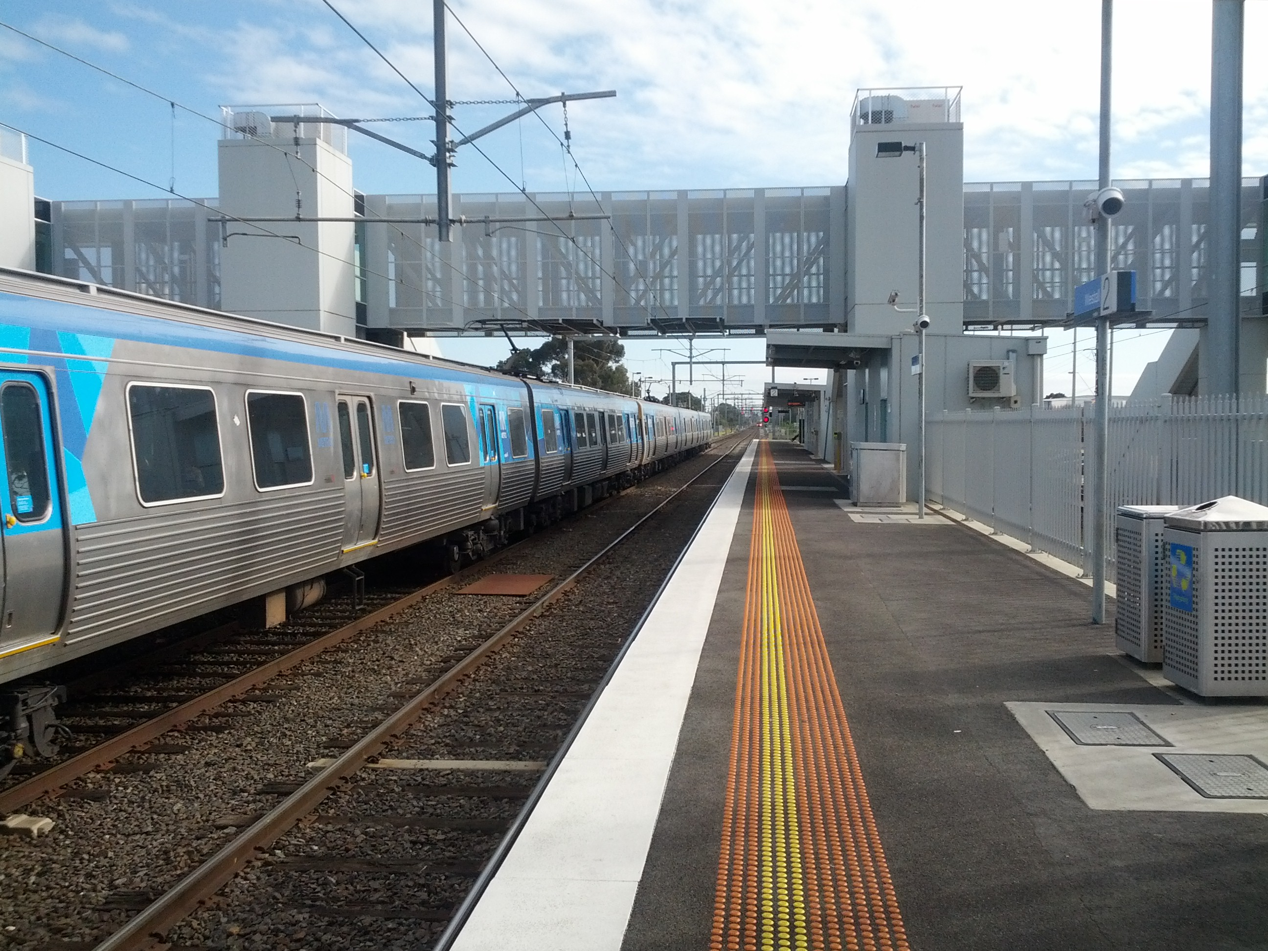 Taken 30/06/13 Westall Station, platform 2, with Comeng on platform 1